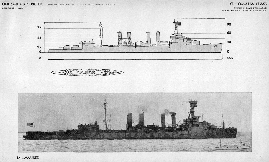 A drawing of the U.S. Omaha-class light cruisers together with a 1942 photo of USS Milwaukee (CL-5). ONI